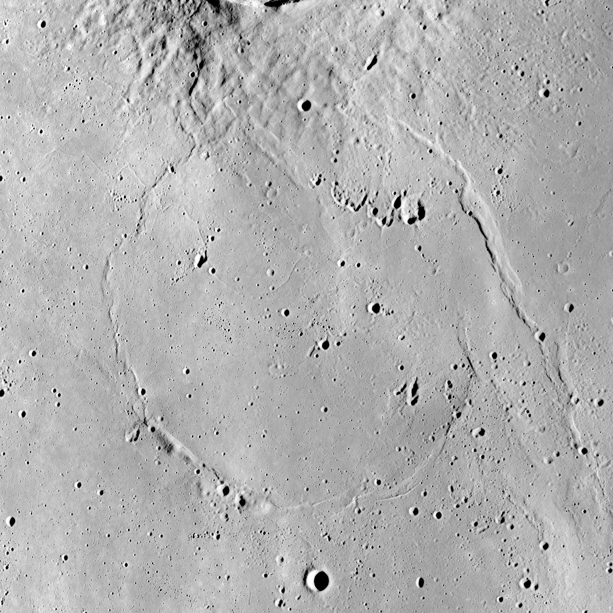 Ghost crater Lamber R on the Moon, in southern Mare Imbrium. Diameter is 59 km. Ejecta blanket and part of the rim of crater Lambert is seen on the upper edge. A small crater in the bottom is Pytheas N. Size of the image is approximately 88×88 km, north is up. Photo by Apollo 17, 15 December 1972.